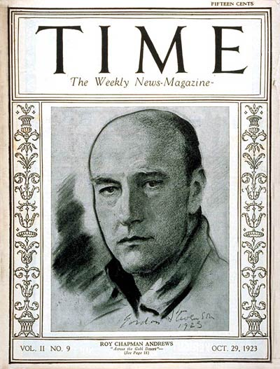 TIME Magazine Cover Featuring Roy Chapman Andrews (29 Oct 1923)